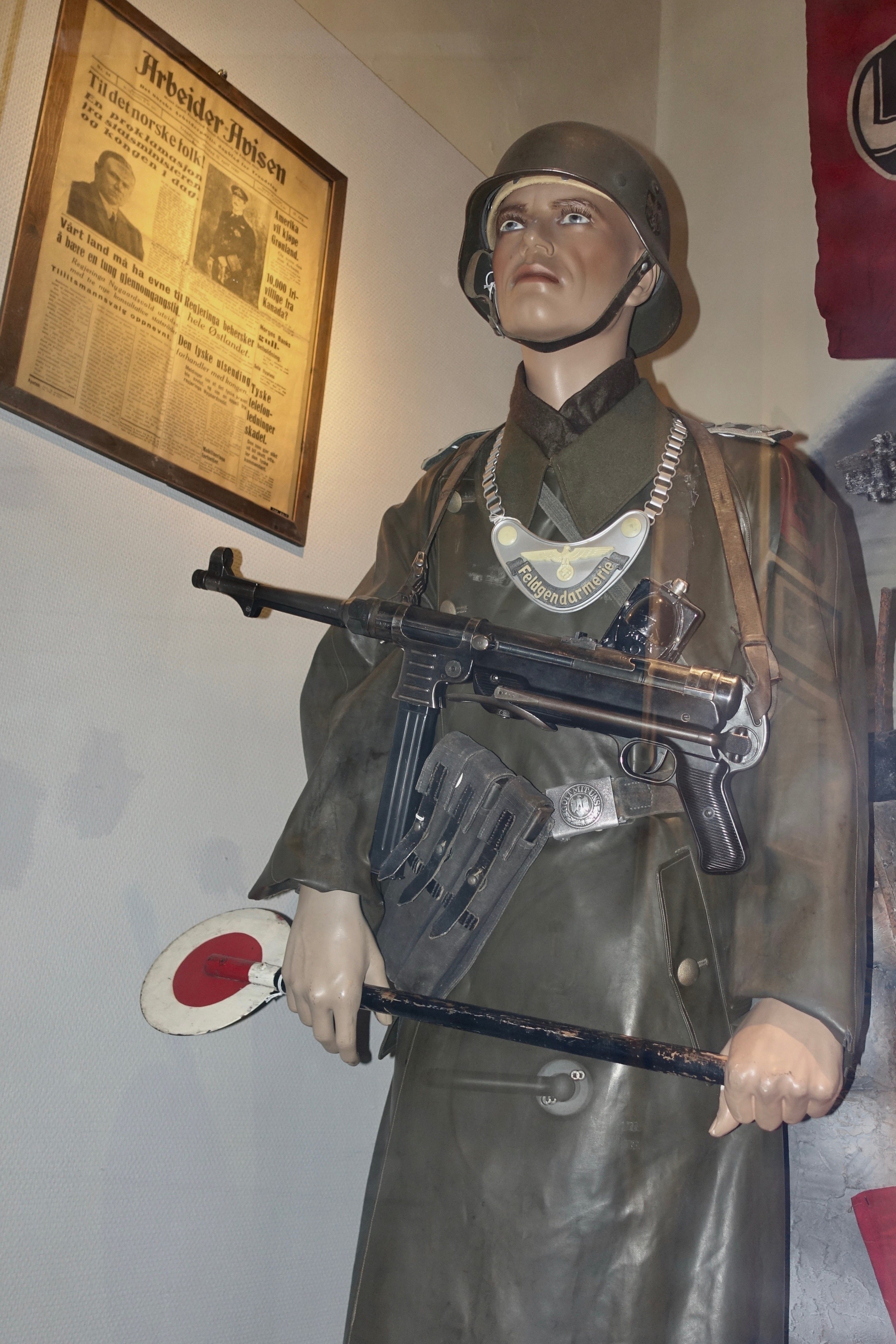 From the exhibition on the German occupation of Norway during World War II 1940 – 1945 at the Norwegian National Museum of Justice (Justismuseet) in Trondheim: uniform of a staff sergeant (Stabsfeldwebel"/"Wachtmeister") of the German military police with motorcyclist raincoat, steel helmet, gorget for Feldgendarmerie, stop paddle/traffic wand, Wehrmacht belt buckle with "Gott mit uns", and MP40 9 mm Schmeisser machine gun; also local Norwegian labour party paper "Arbeider-Avisen".The units of the German military police cooperated with the Norwegian police to maintain public order during the Nazi occupation in WW2.